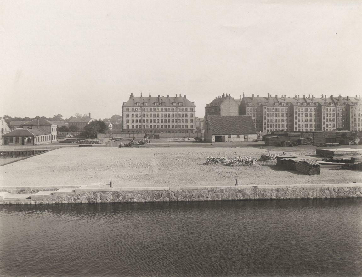 Bodenhoffs Plads seen from the other side of Christianshavns Kanal in Copenhagen, Denmark